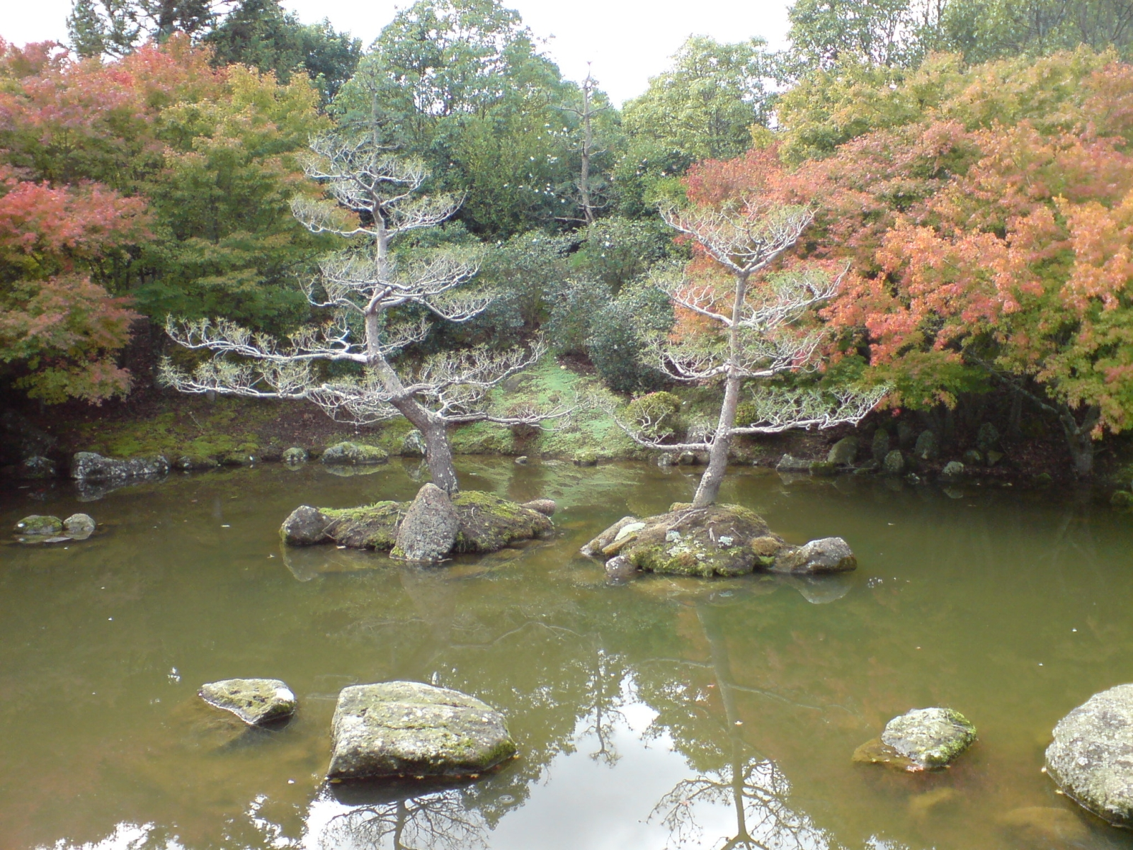 The Hamilton Gardens in Hamilton, New Zealand, looking over the pond in the Japanese Garden.